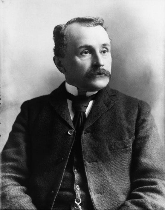 Portrait of François Langelier